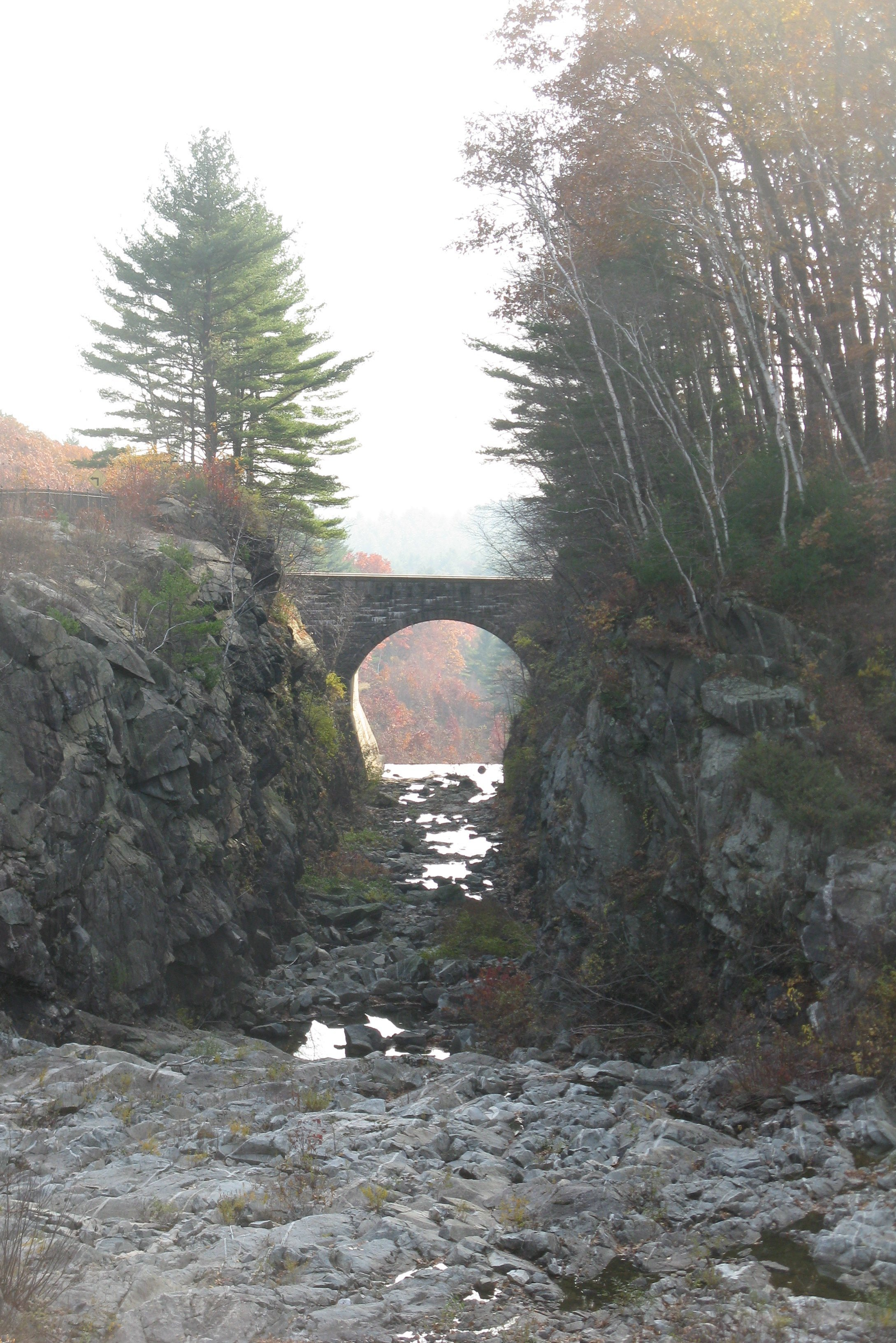 Winsor Dam Bridge and Spillway, Ware Massachusetts